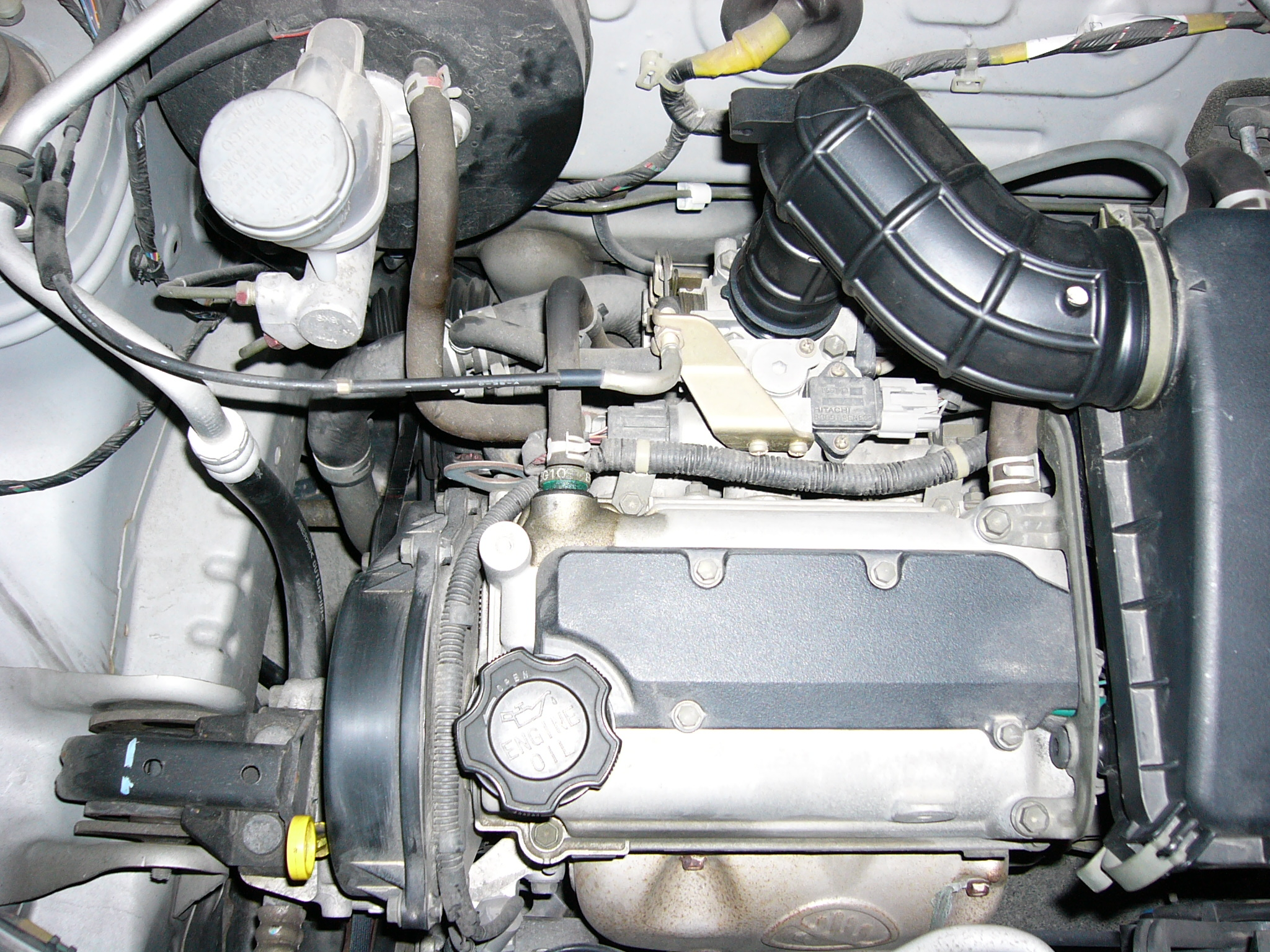 Suzuki Alto's(5th Gen,HA12S) F6A engine. With Direct Ignition(DI).